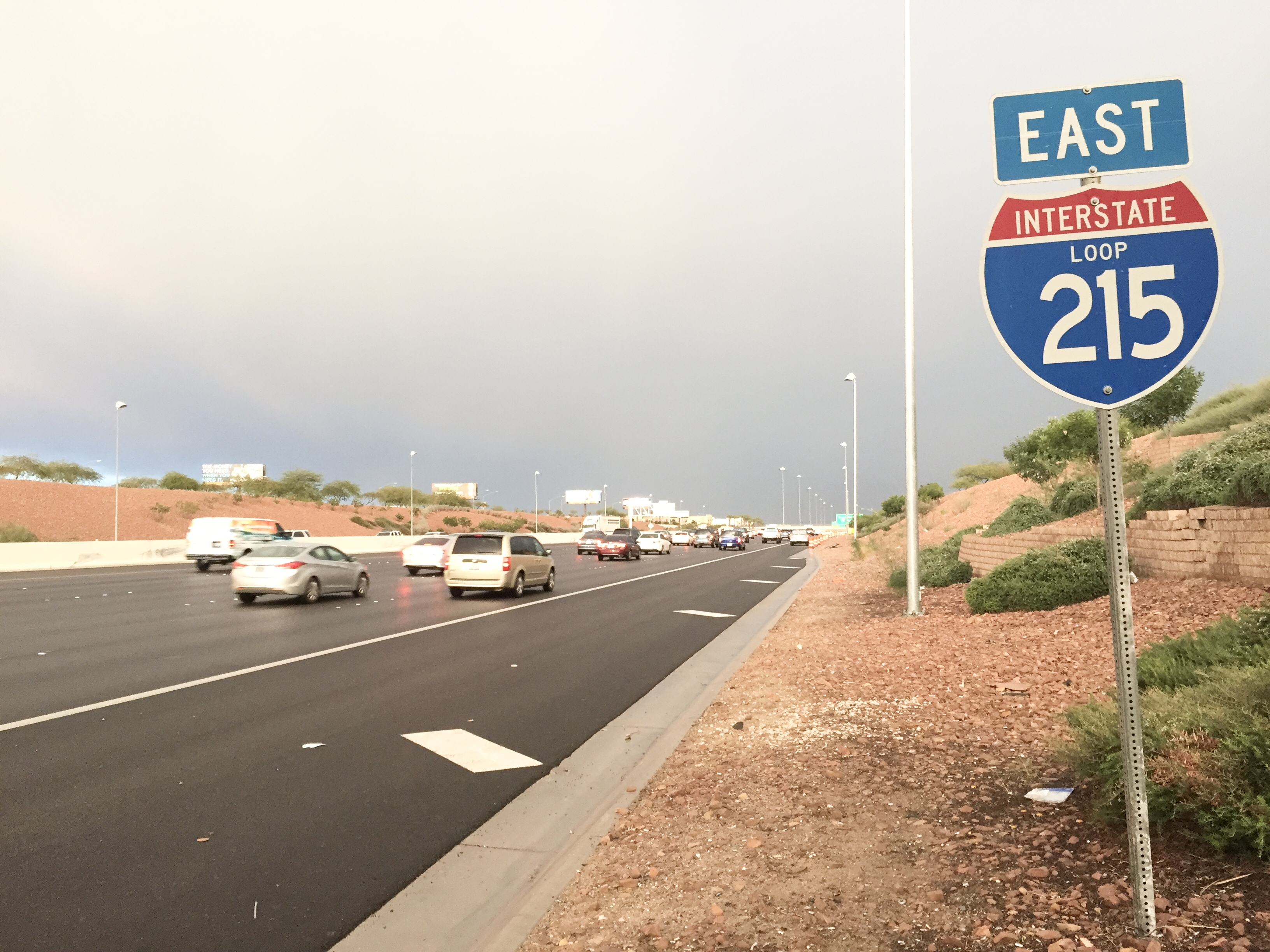 First reassurance sign along eastbound Interstate 215 (Las Vegas Beltway) in Enterprise, Nevada